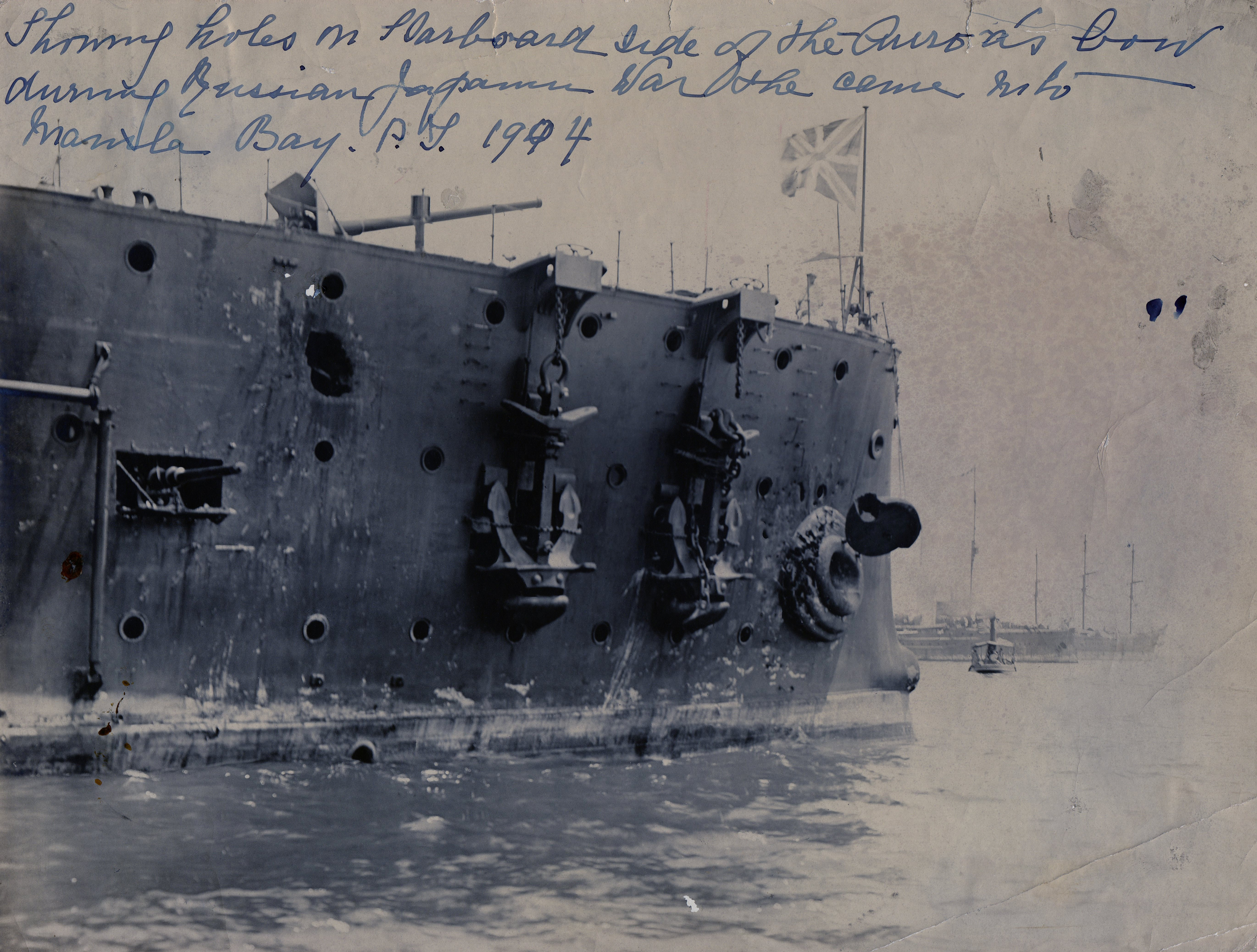 Aurora Ship Battle Damage - Photographed Manila 1905